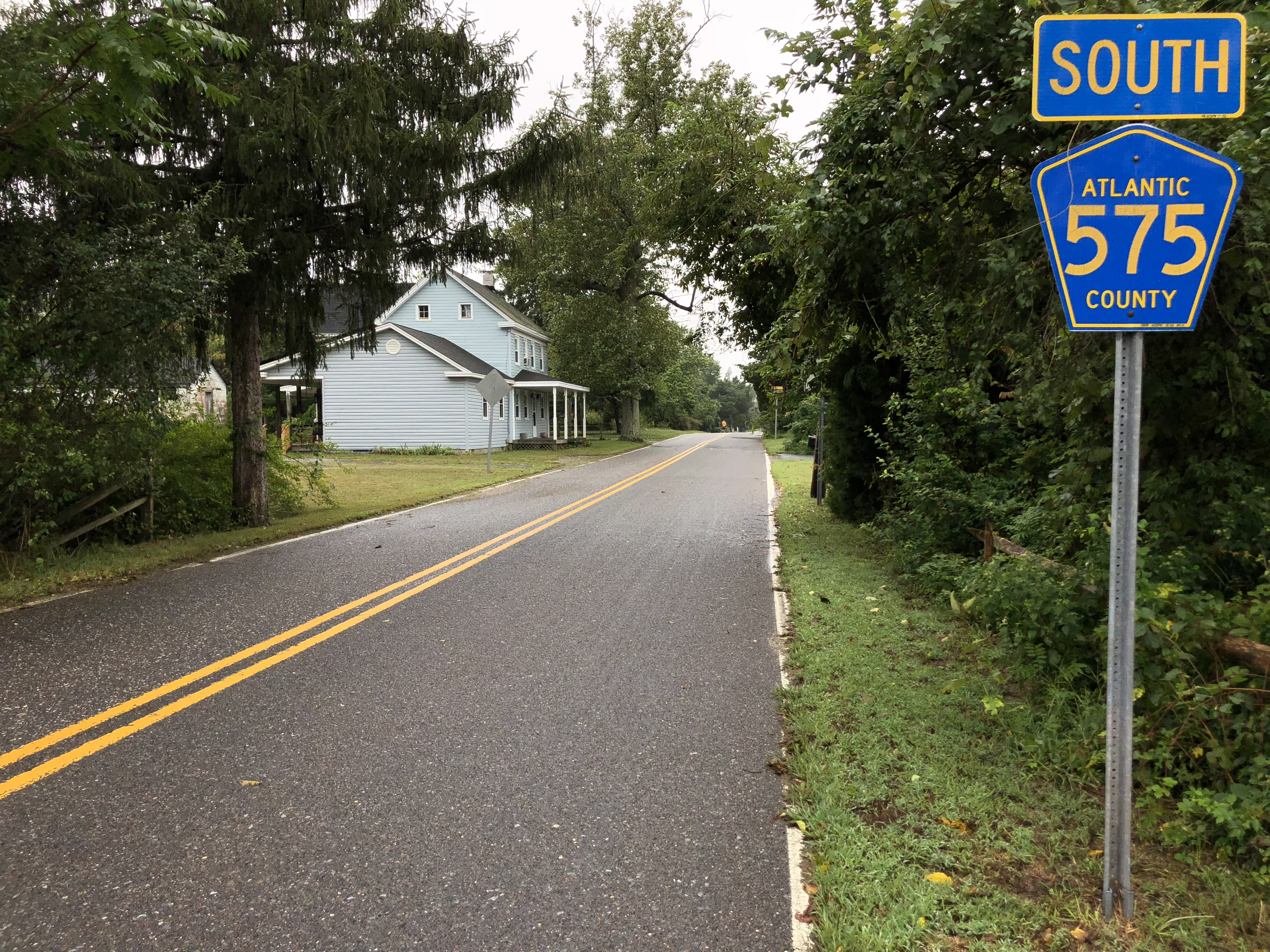 View south along Atlantic County Route 575 (Main Street) just south of Atlantic County Route 610 (Old New York Road) in Port Republic, Atlantic County, New Jersey